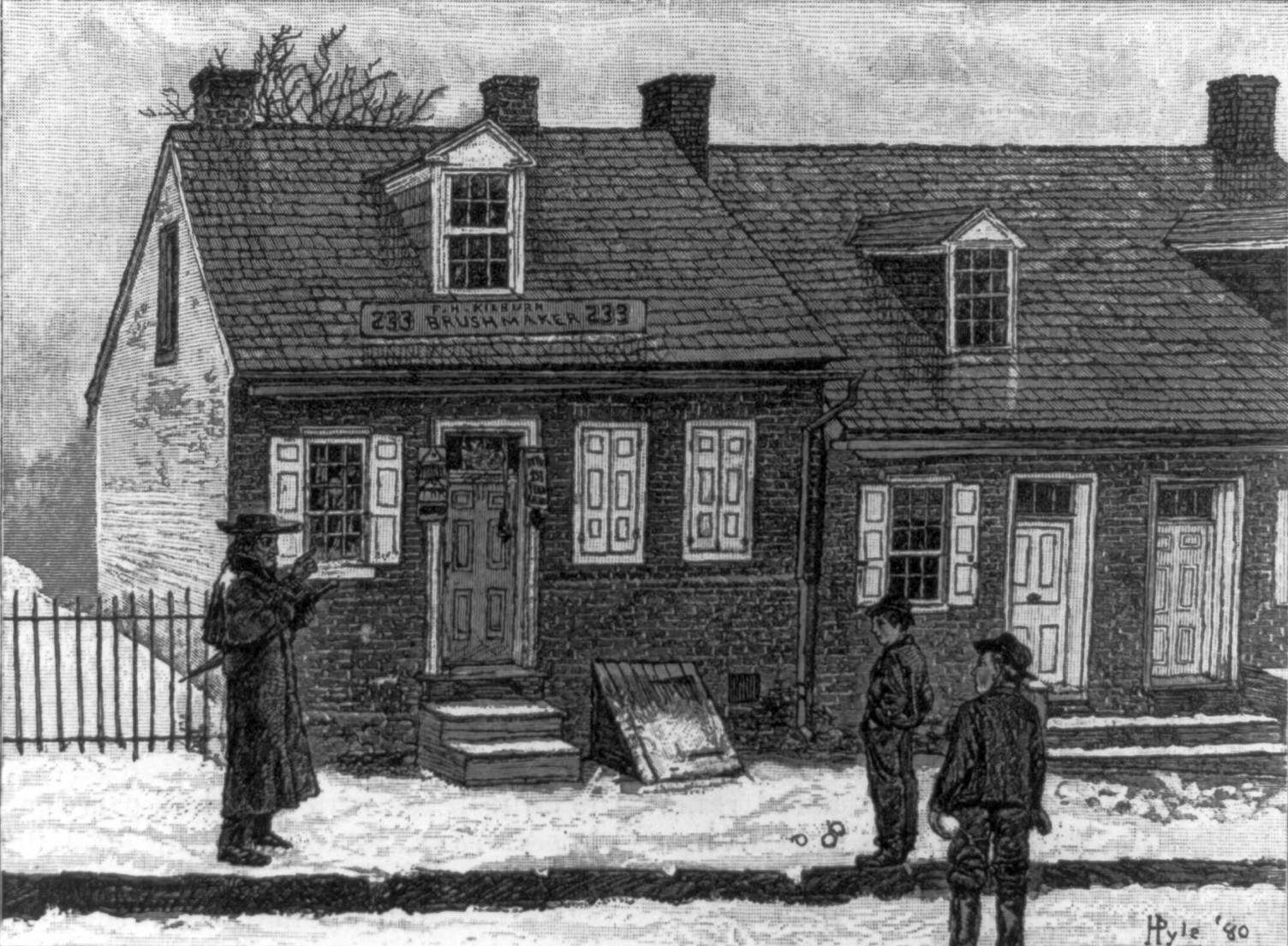 Wood engraving from drawing by Howard Pyle which illus. his article, "A Peculiar People," in Harper's New Monthly, Oct. 1889, pp. 776-785. Dunker religion in Pennsylvania: An old Lancaster House